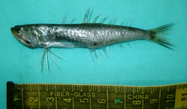 Champsodon nudivittis collected Off shore of Balochistan, Pakistan.